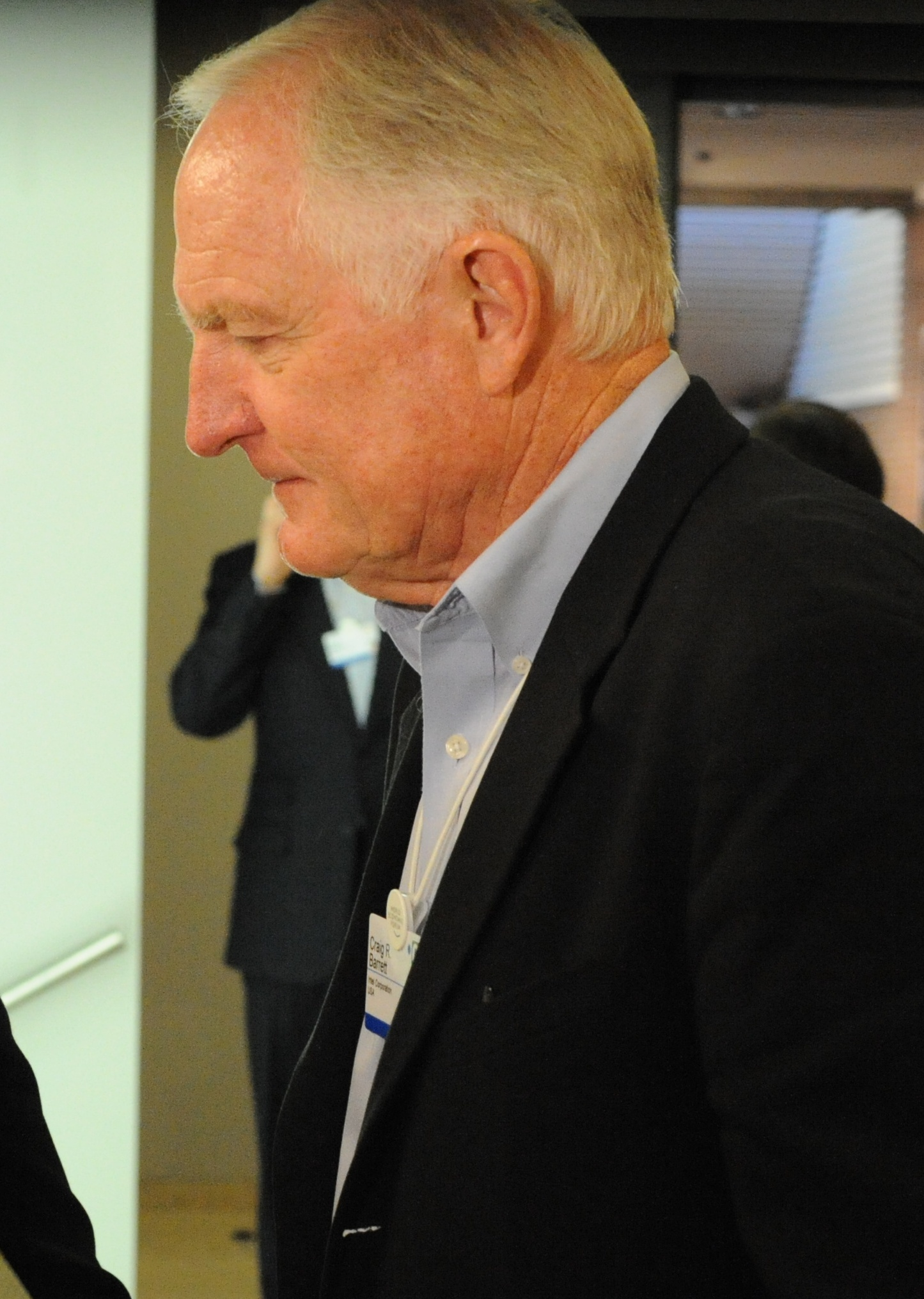 Craig Barrett being interviewed at the 2008 World Economic Forum.Craig Barrett, chairman of Intel